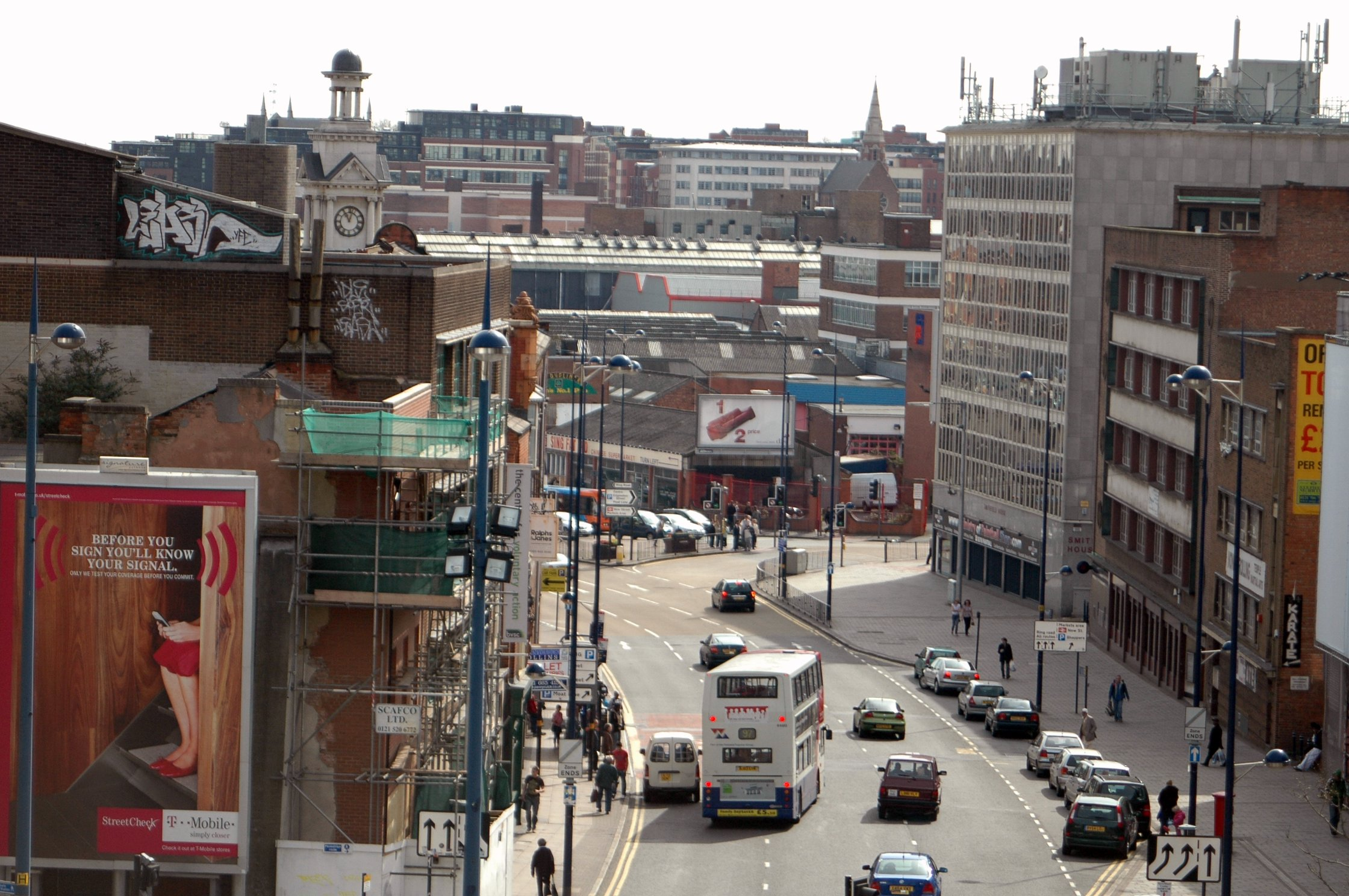 This is Digbeth High Street of Digbeth as viewed from a platform in Selfridges in Birmingham, England.